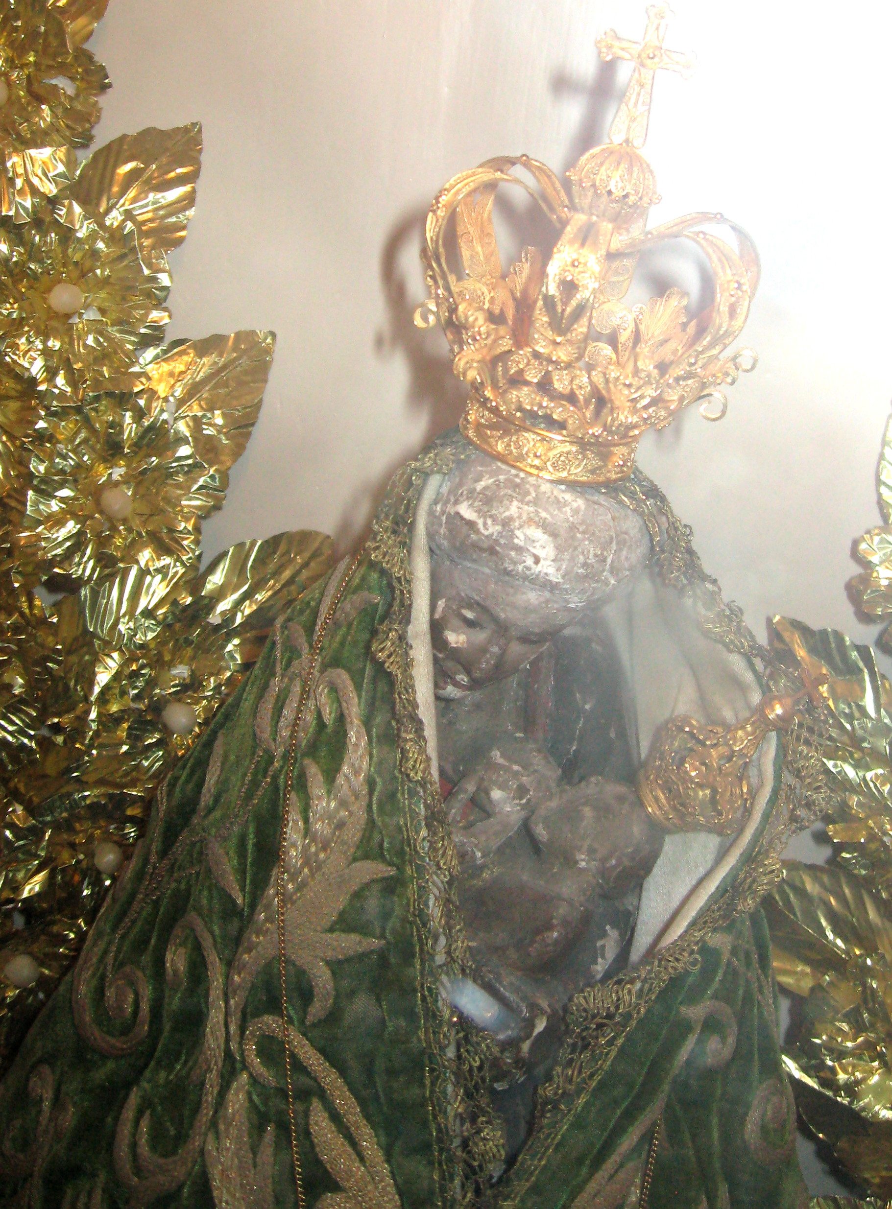 Nazaré, Portugal, Sítio, Sclupture: Nossa Senhora with crown, over 800 years old, public domain, in: Igreja da Nossa Senhora da Nazaré; no photo-restriction at 2008-05-20